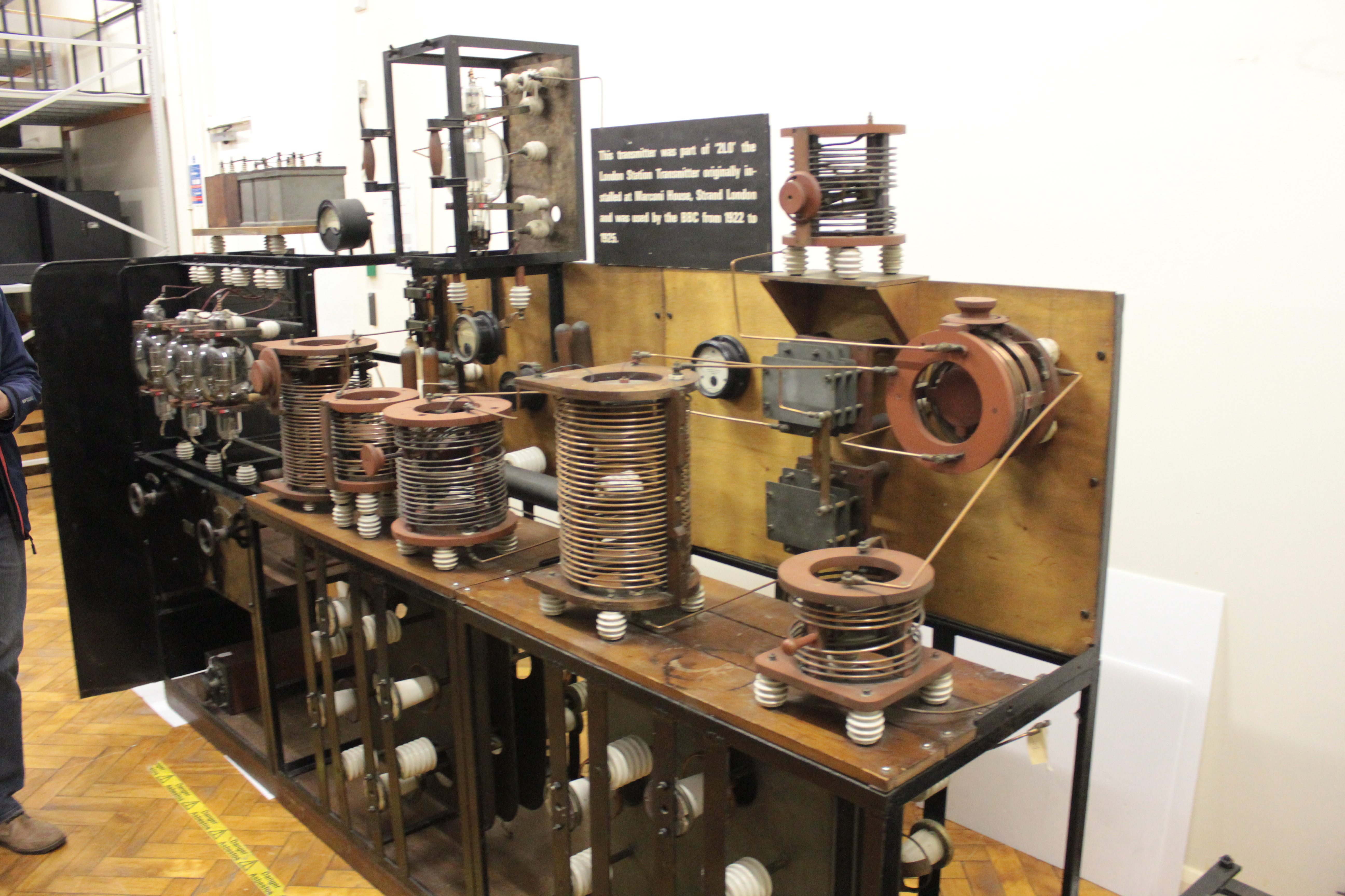 Blythe House Science Museum stores tour